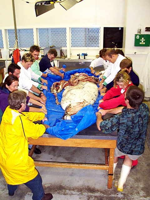 Photo from In Search of Giant Squid - 1999 Expedition Journals, Smithsonian Institution.